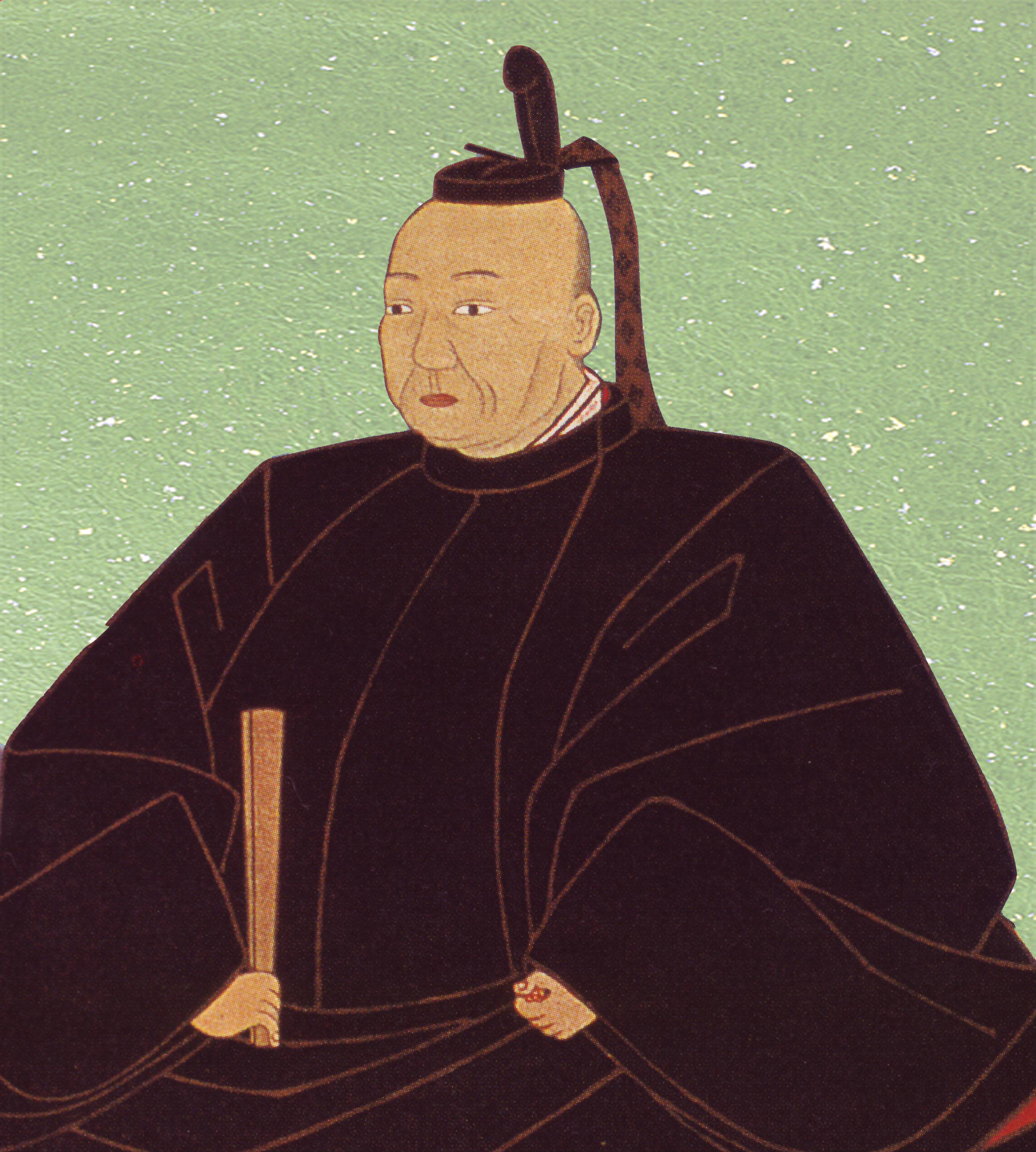 portrait of Yamauchi Katsutoyo